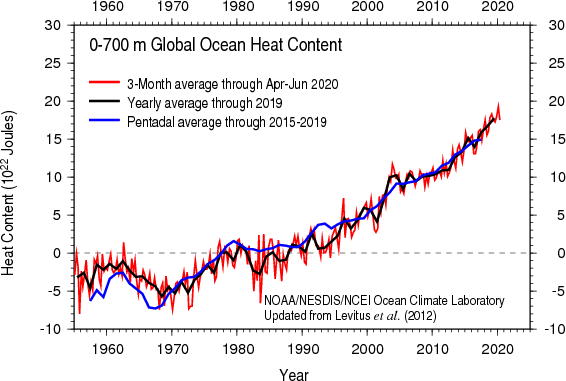 global ocean heat content